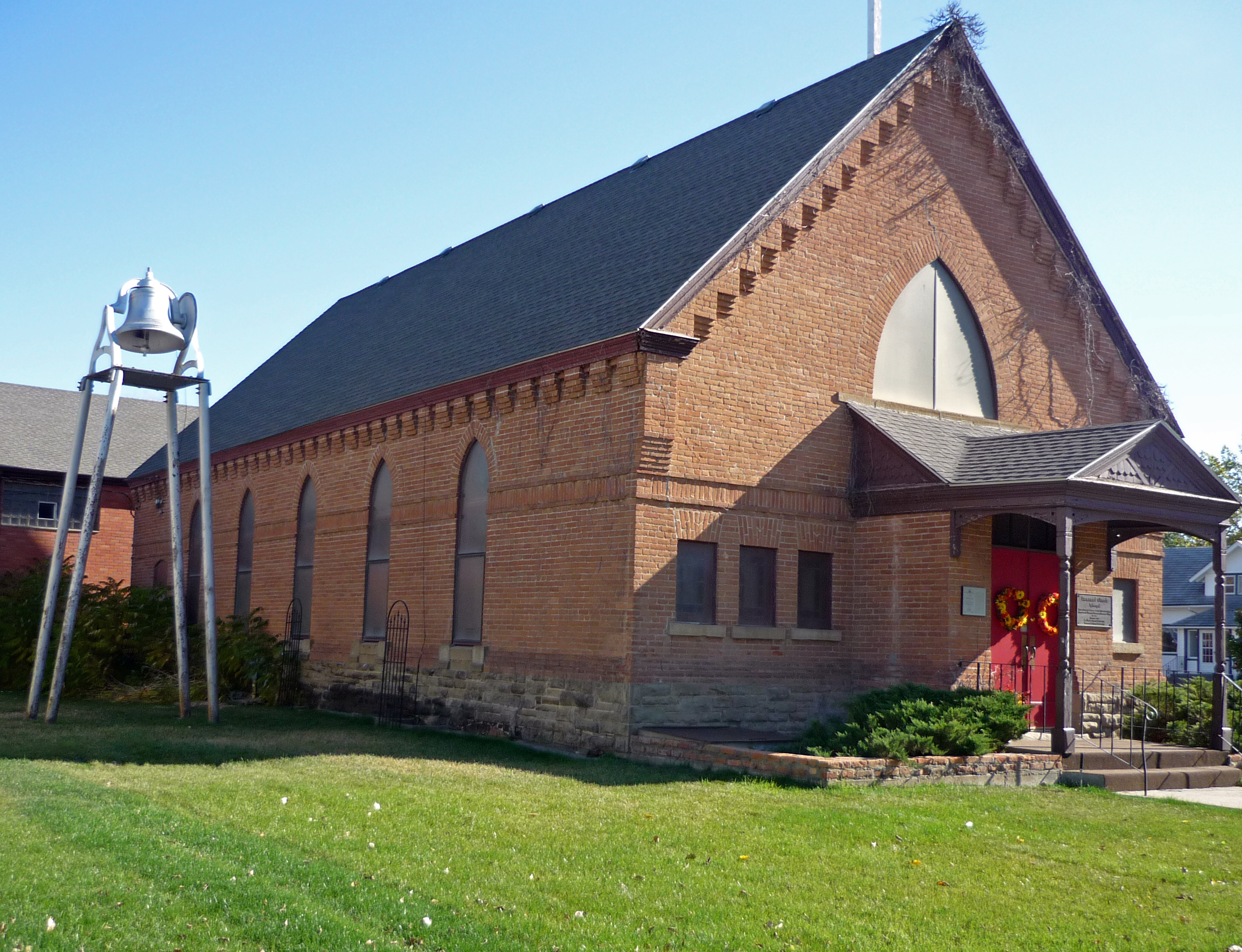 Emmanuel Episcopal Church, part of the Carriage House Historic District on National Register of Historic Places building in Miles City, Montana